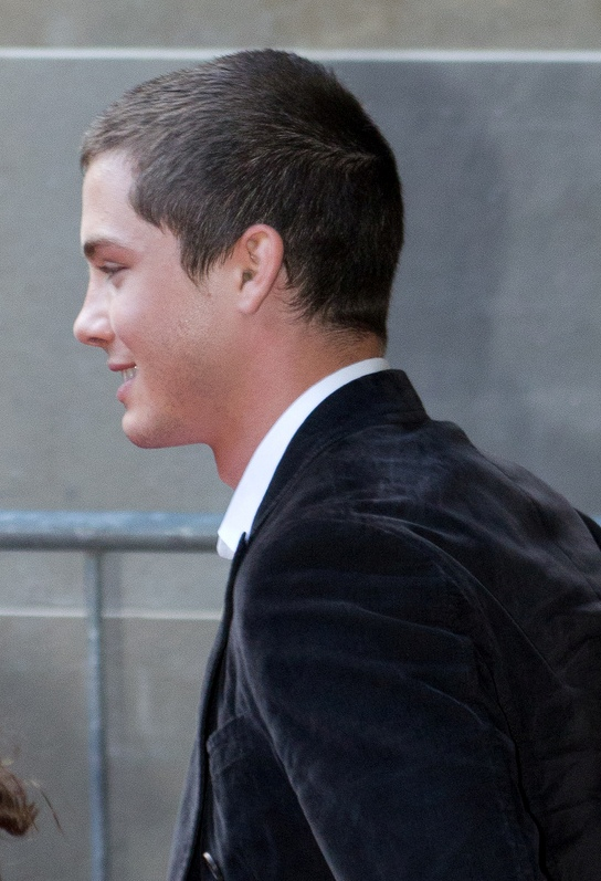 A photo of actor, Logan Lerman at the 2012 Toronto International Film Festival last September 2012.